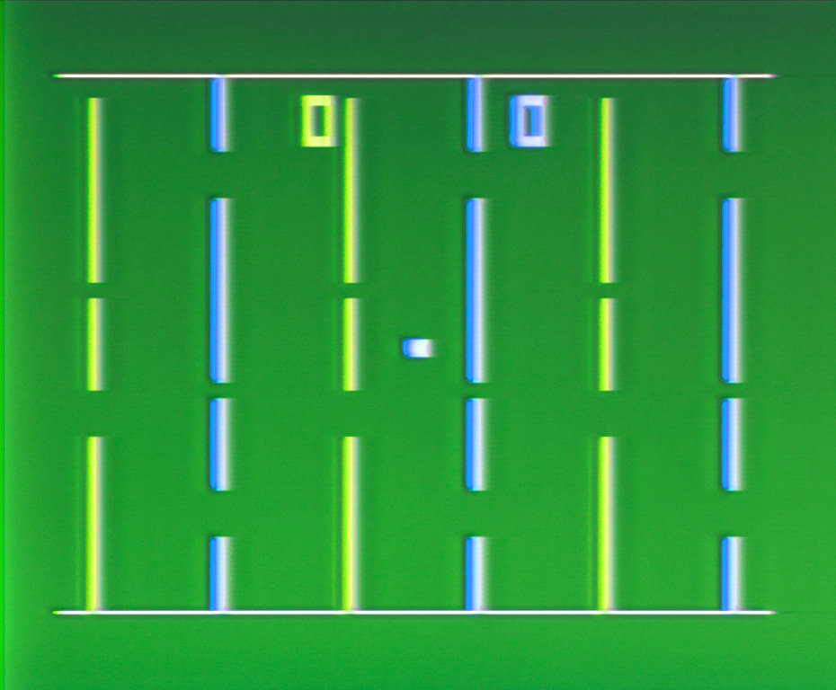 The "Gridball" game from the "Superstar 2001" game cartridge for the Prinztronic Tournament Colour Programmable 2000. This cartridge uses the GI AY-3-8610 ("10-pong-derivatives-on-one-chip"). (This is a photo of an actual TV displaying a genuine AY-3-8610 based game. For technical reasons, it has been tweaked as below. The black edges are a video artifact and not part of the game itself.)